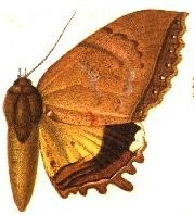 PLATE CCXXVI.